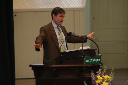 John Harwood, CNBC, Wash PostJohn Harwood, CNBC, Wash Post